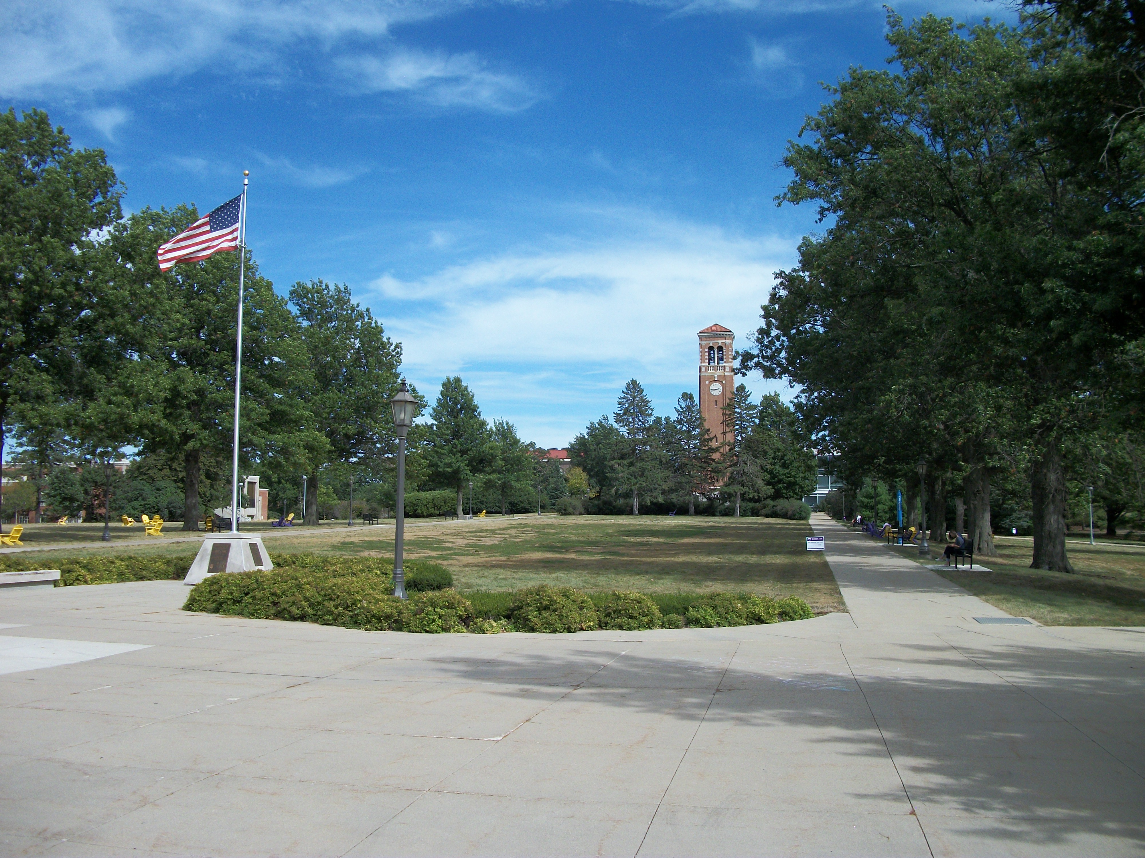 Memorial to 2LT Robert Hibbs and Campanile at University of Northern Iowa